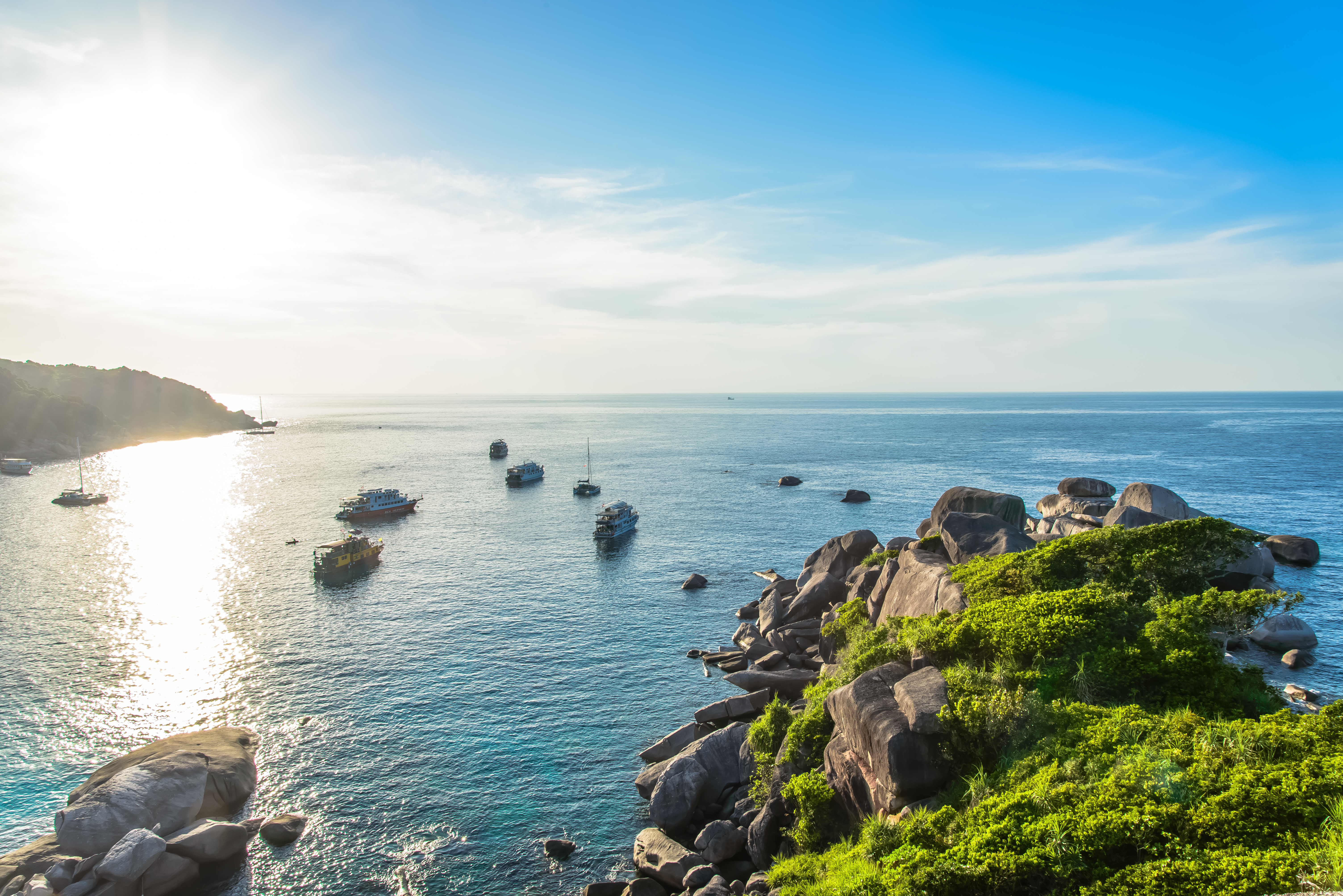 View from Similan Island to Andaman Sea, Similan Islands, Phangnga Province